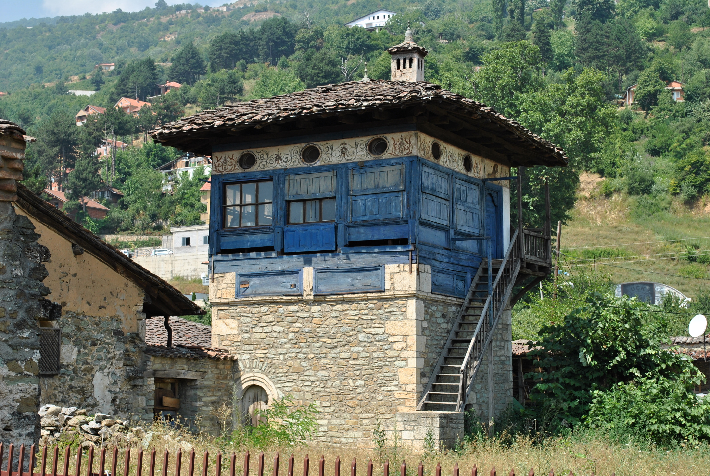 Tetovo, Mecedonia - Arabati Baba Teḱe Complex - so-called Blue house, 18th century